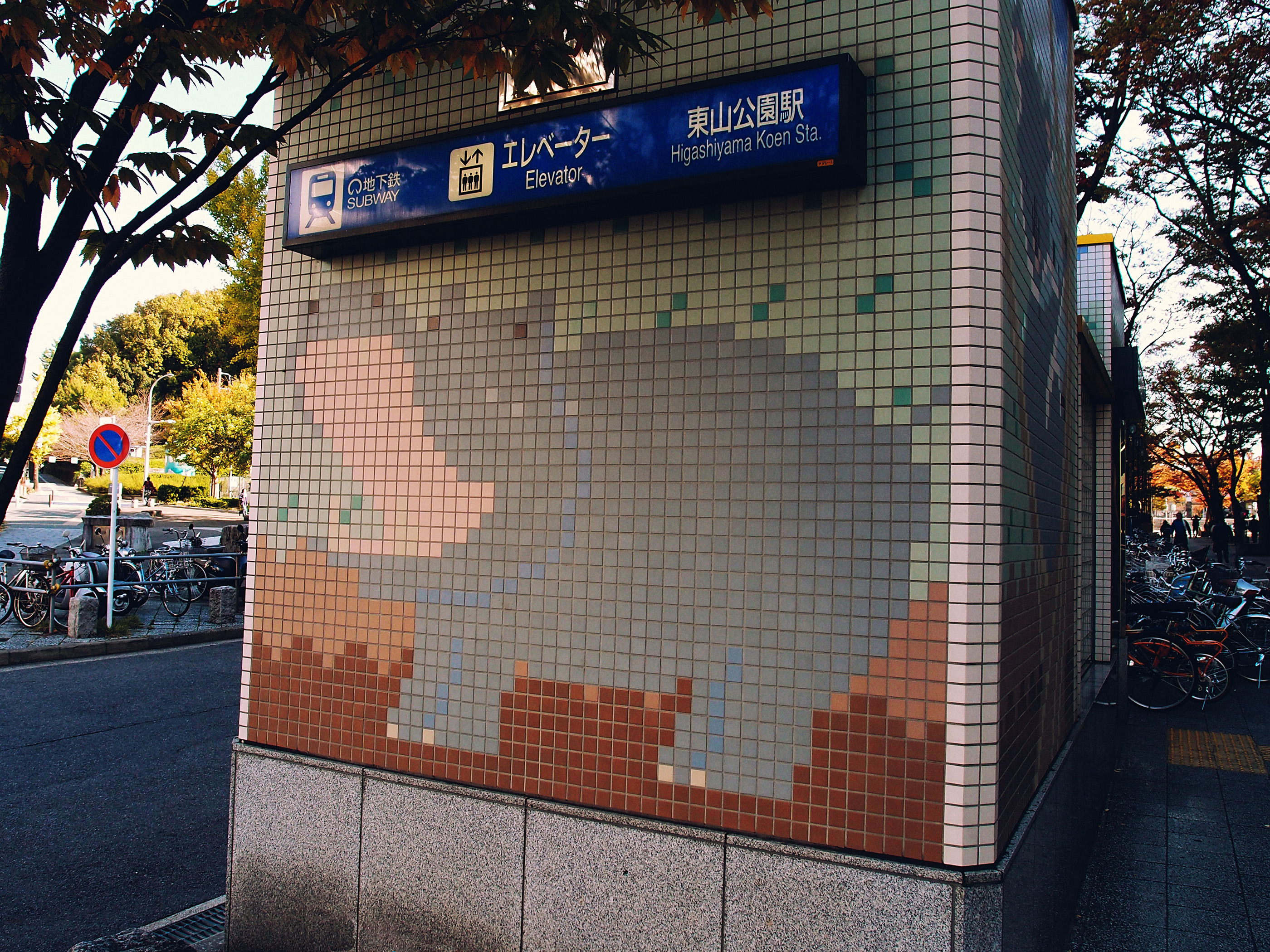 A photo of Nagoya from the Nagoyish photo blog.